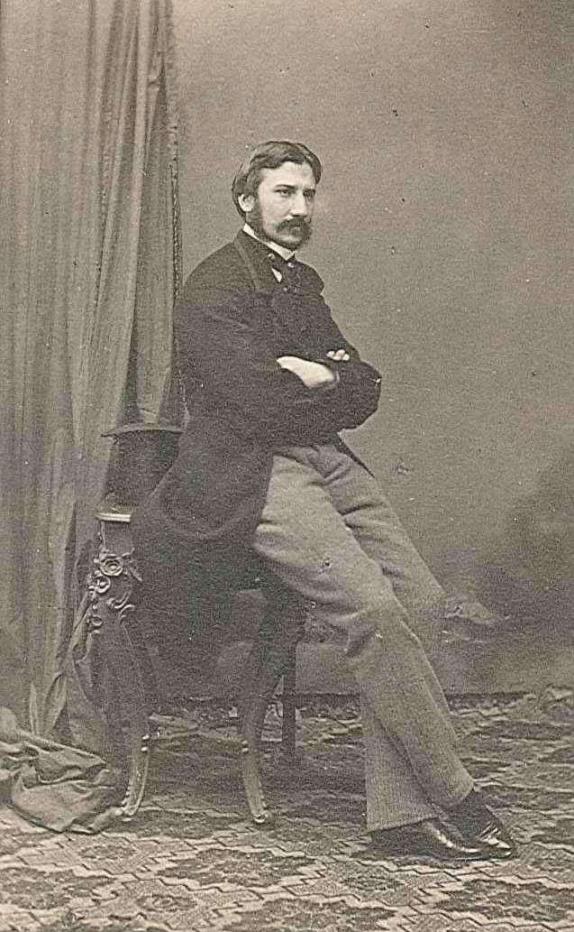 Max Freiherr von Lerchenfeld-Aham